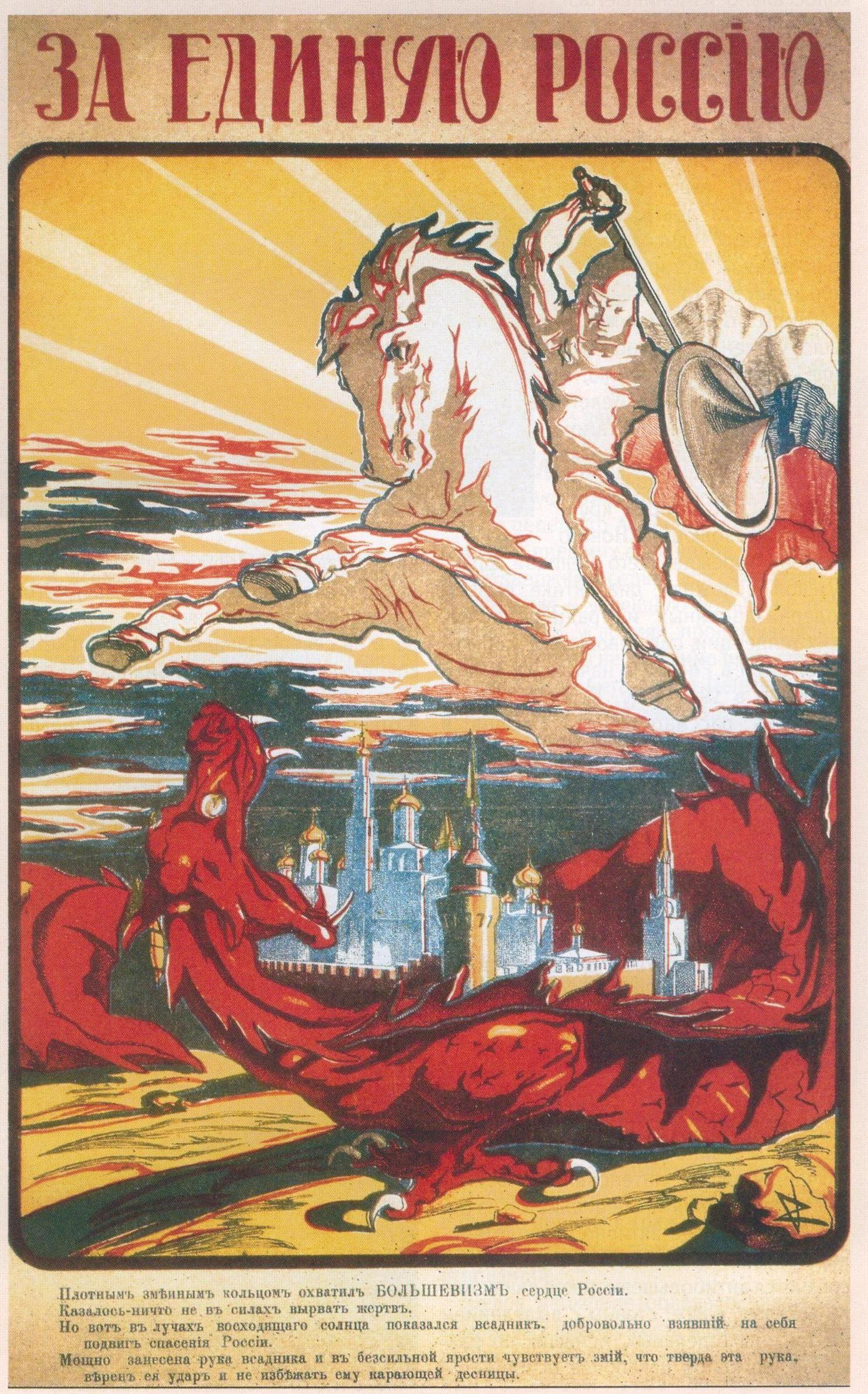 "For a united Russia". Russian White Forces propagandist poster representing the Bolsheviks as a red dragon and the White Cause as a crusading knight.